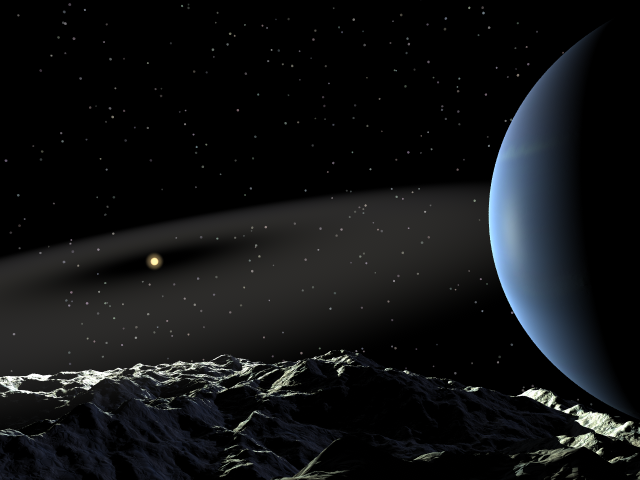 The star Epsilon Eridani has a known planet that is orbiting inside a circumstellar disk of dust. Based on density changes in the disk, it has been hypothesized that a second planet is orbiting the star at a distance outside the dust. This artistic rendering shows a view from a conjectured icy moon in orbit around the second planet. The disk is shown as a a grey ring about the central star. The inner planet is not shown.